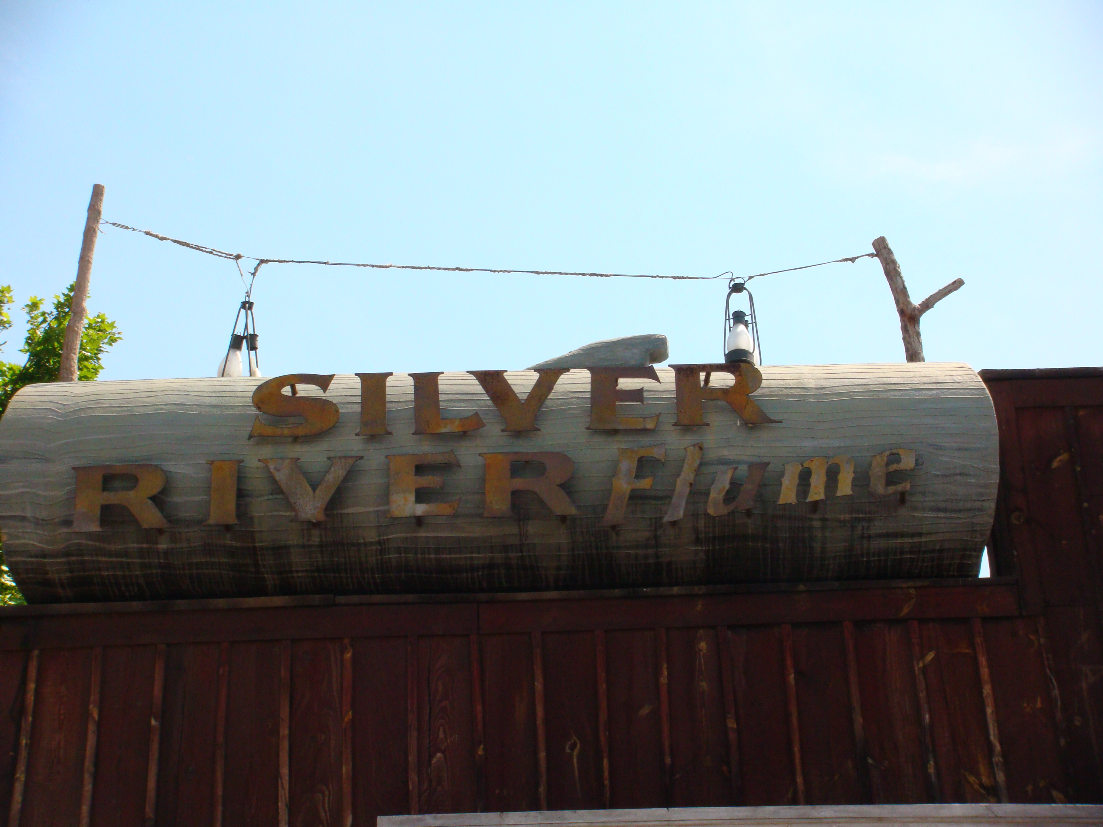 Banner of Silver River Flume in Port Aventura.